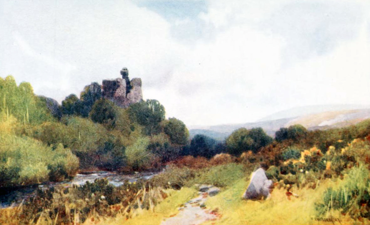 Watercolour of Okehampton Castle